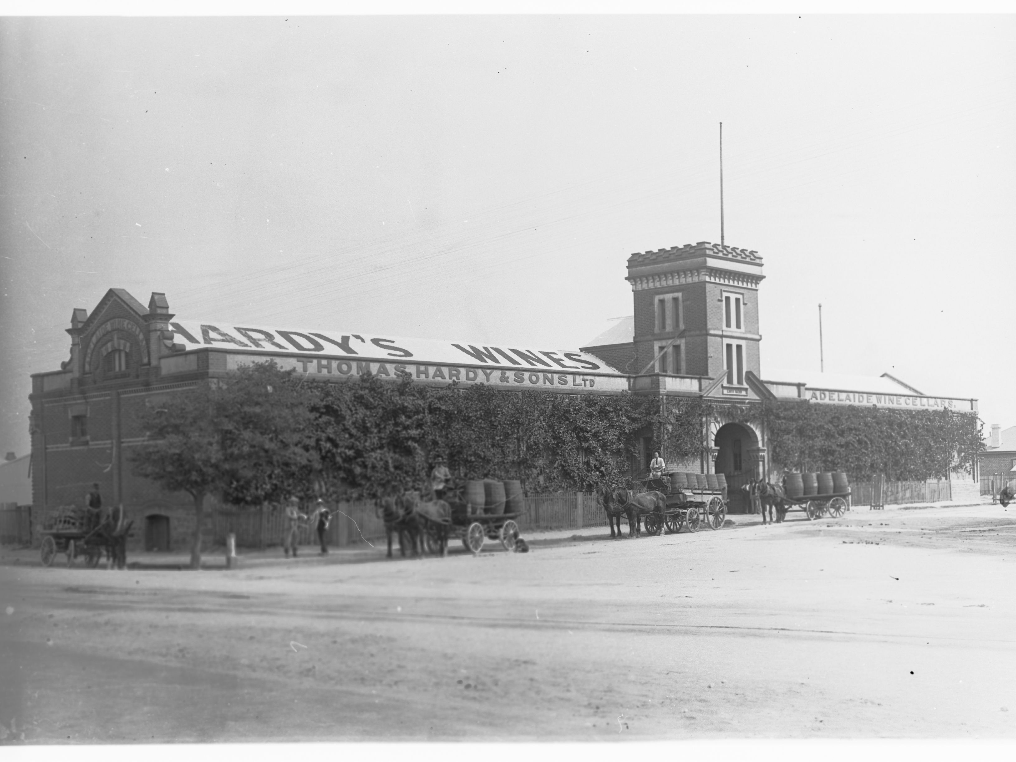 S.A. Large Print Album (large blue folder) 3174-3191: some 10 x 12inch negatives have rack numbers, not box and row - no known index. See large print of 3185. (G Brooks)